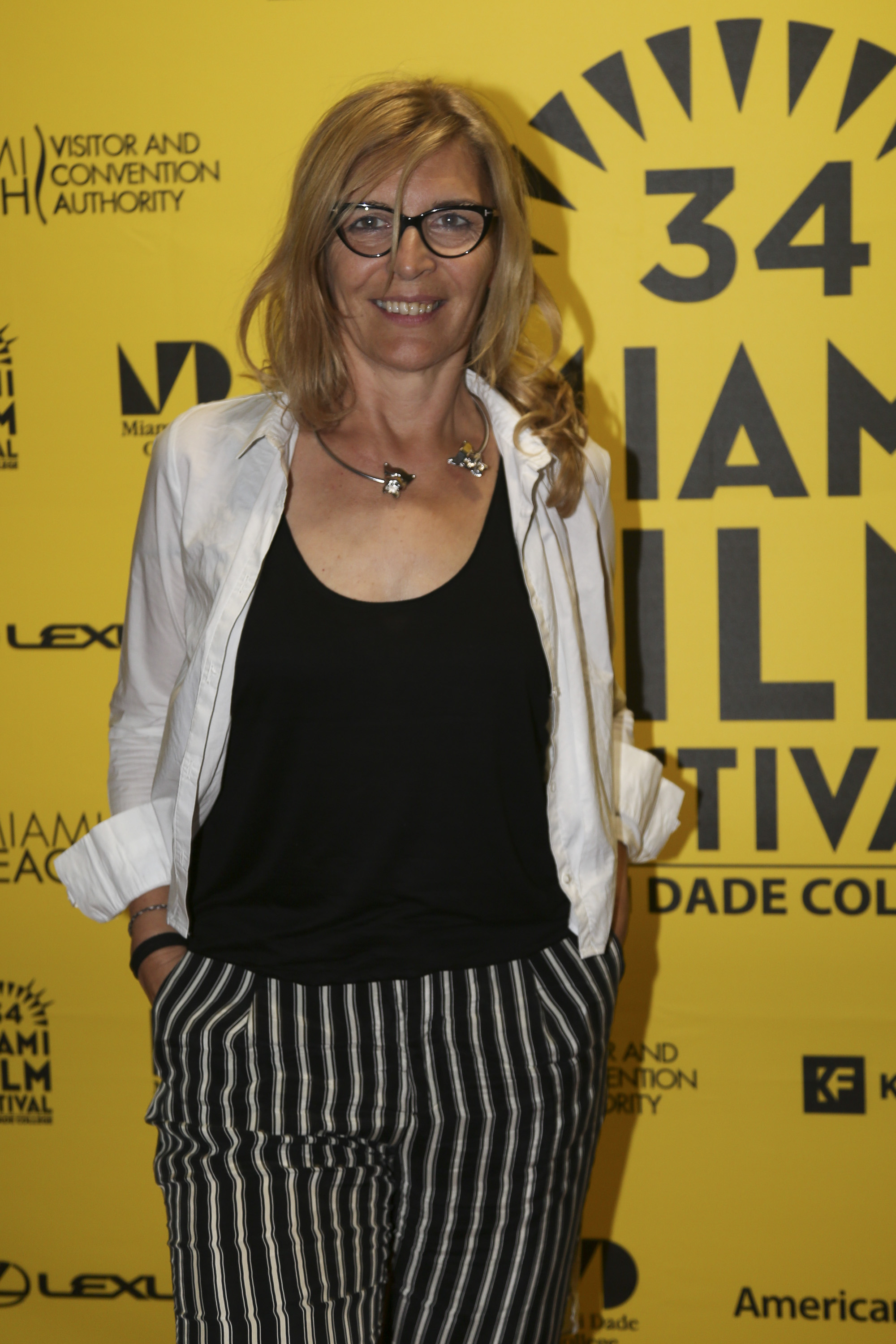 Maria Ripoll at the 2017 Miami International Film Festival presentation of Don't Blame it On Your Karma! at Regal Theater during Miami Film Festival on March 10, 2017